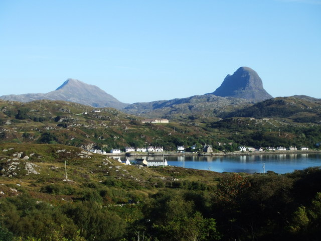 Lochinver and Suilven